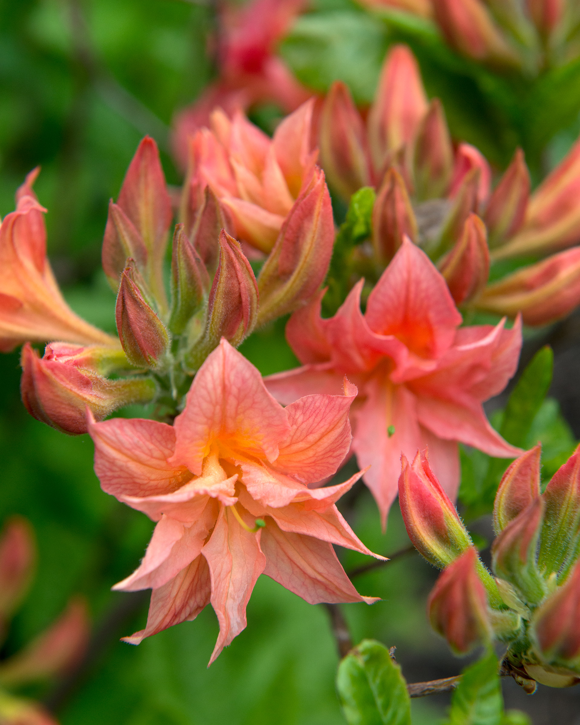 Rhododendron × mixtum 'Norma' (Rustica hybrid azalea) in flower